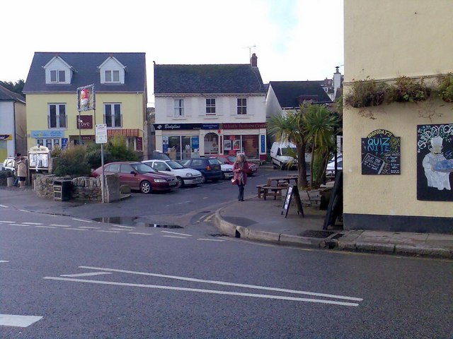 Perranporth: triangle between St Georges Hill and Beach Road Includes the (then) excellent 'The Cove', which described itself as 'More than just a cafe'.